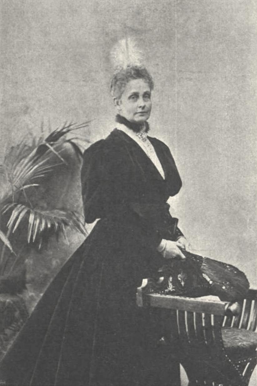 Princess Maria Immaculata of Bourbon-Two Sicilies (1844–1899)